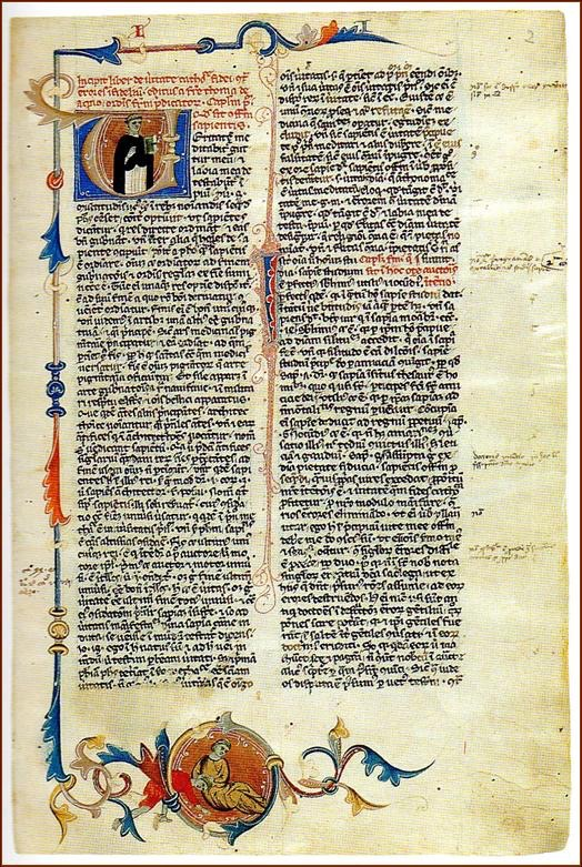 Tarragona (Biblioteca Pública de Tarragona), Catalonia: Manuscript